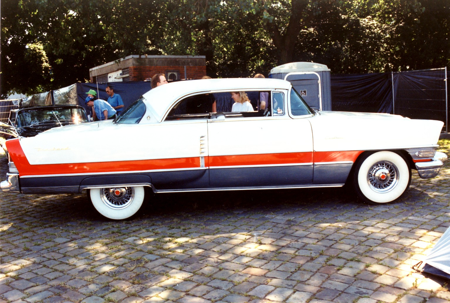 1956 Packard Caribbean Hardtop, 1 of 263, at car-show in Hamburg, Germany